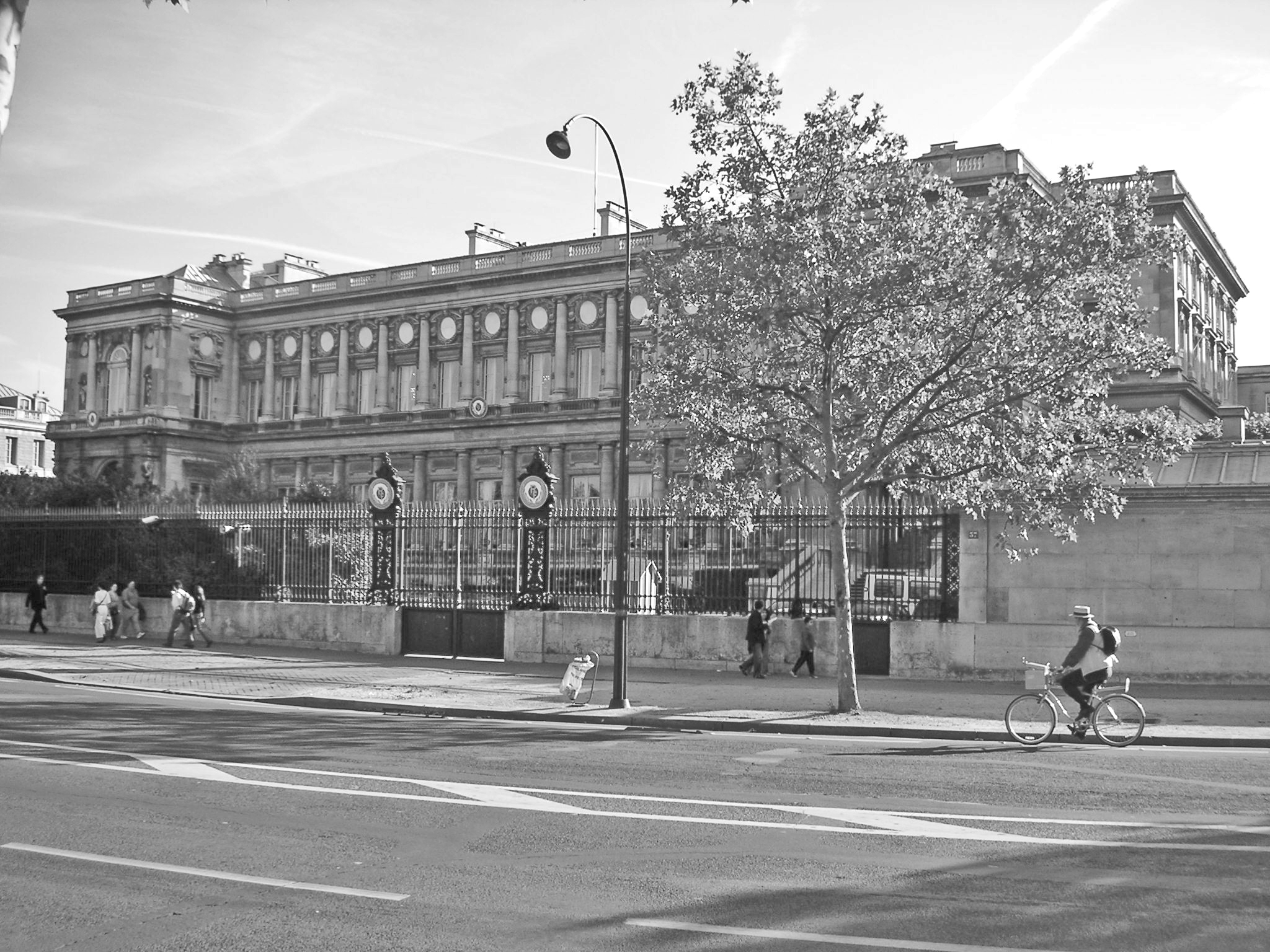 Quai d'Orsay (Paris). The Salon de l'Horloge. It was here that, on 1950, Robert Schuman gave the speech launching the plan for a European Coal and Steel Community.